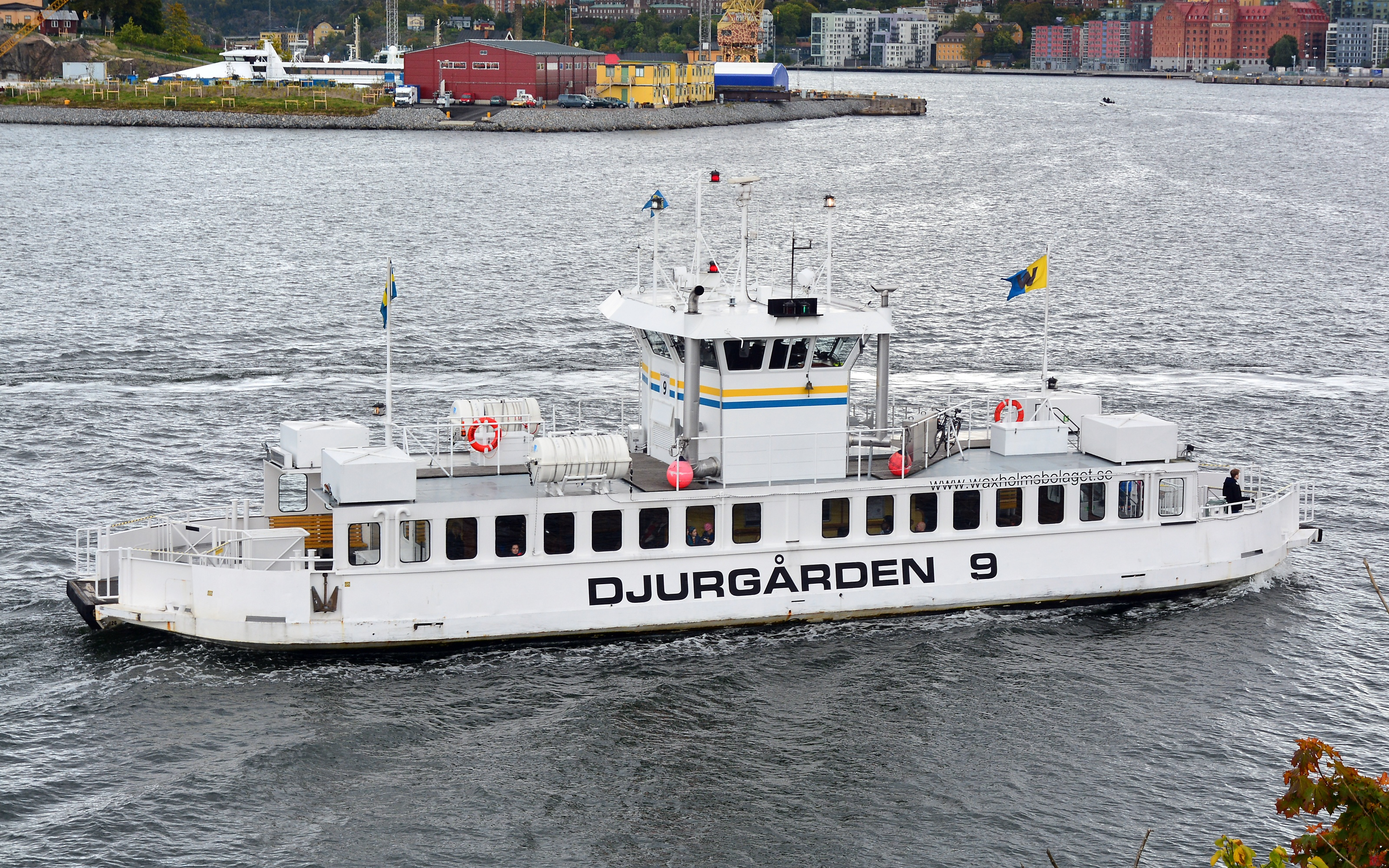 Djurgårdsfärjan Djurgården 9 between Kastellholmen and Beckholmen in Stockholm, Sweden.